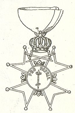 Knight in the Order of the Sword, Sweden